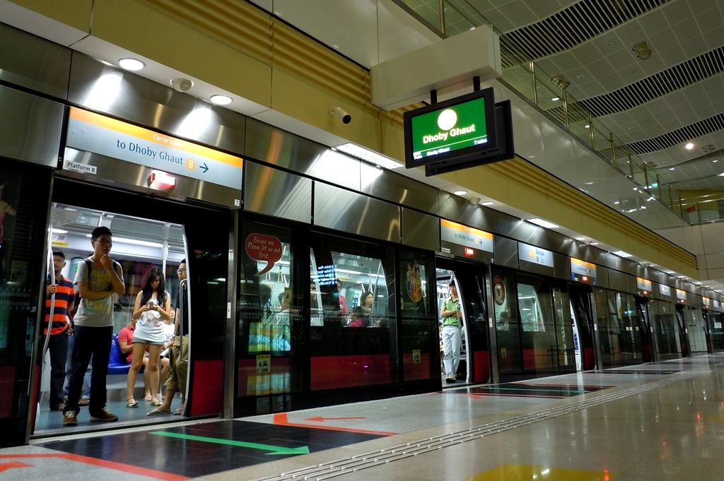 Circle Line platform of Bishan Station